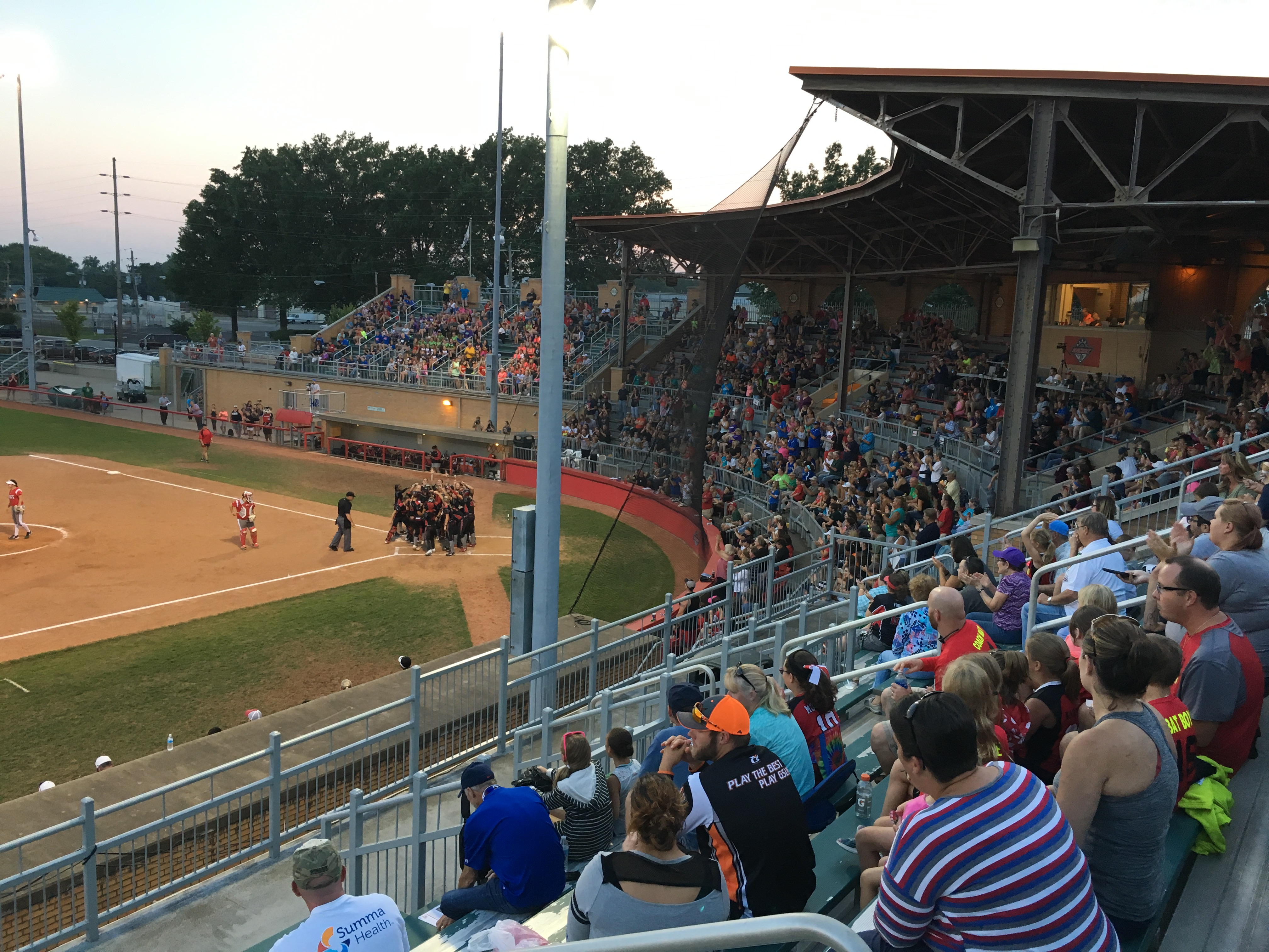 Main grandstand of Firestone Stadium in Akron, Ohio during an Akron Racers game, following a Racers homerun.